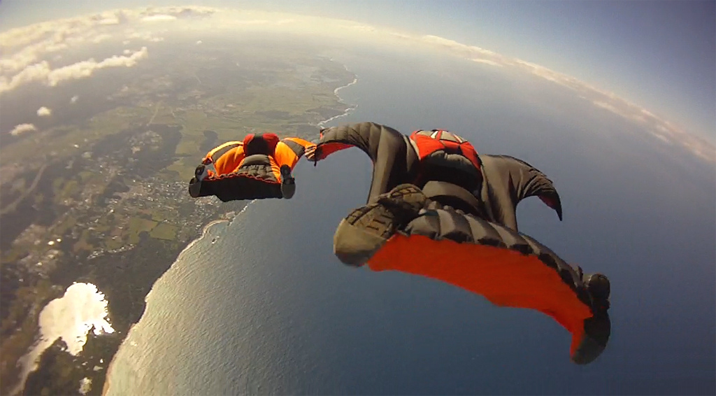 Ocean Wingsuit Formation